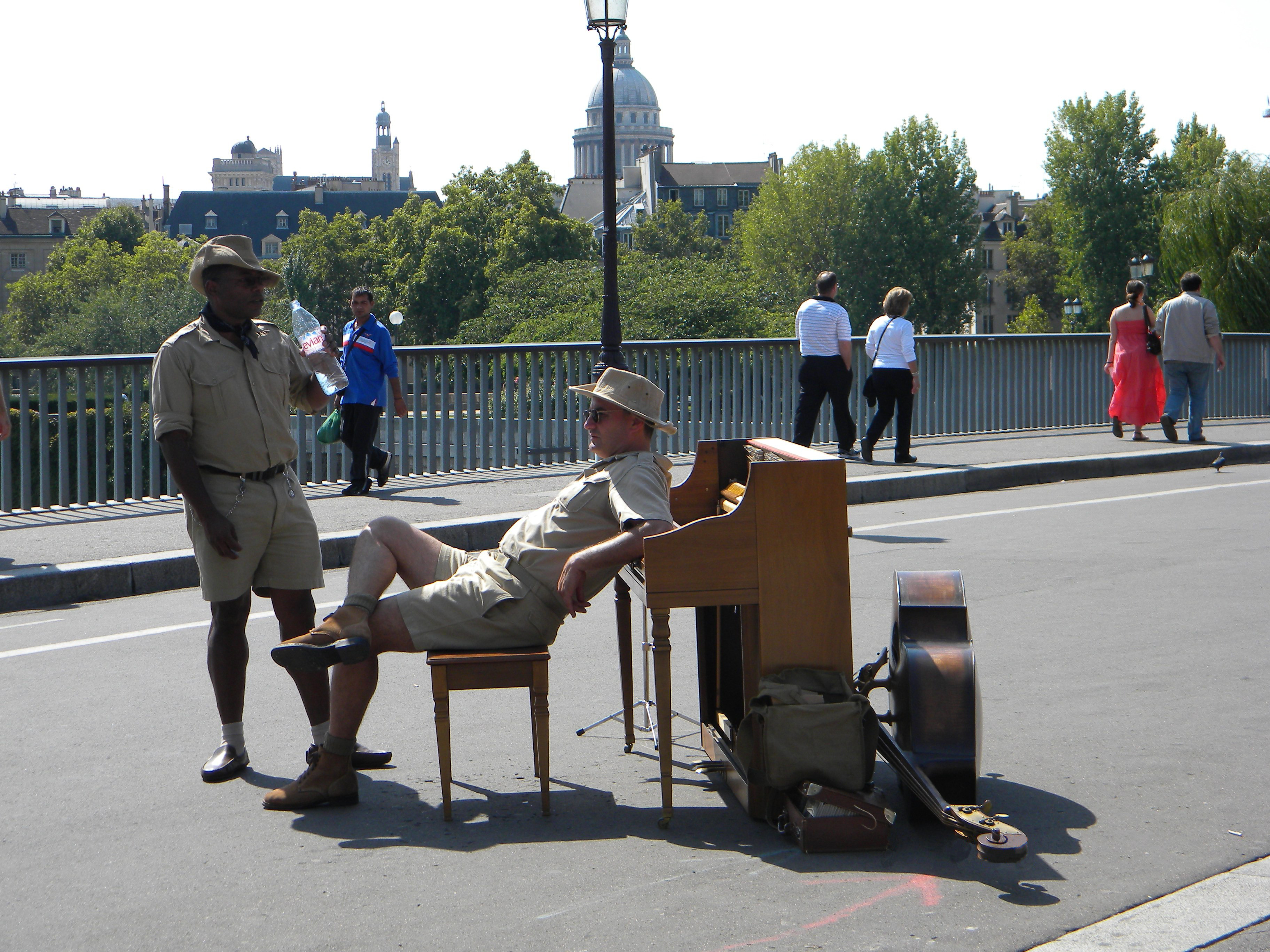 Pont Saint Louis and professional musicians, Paris